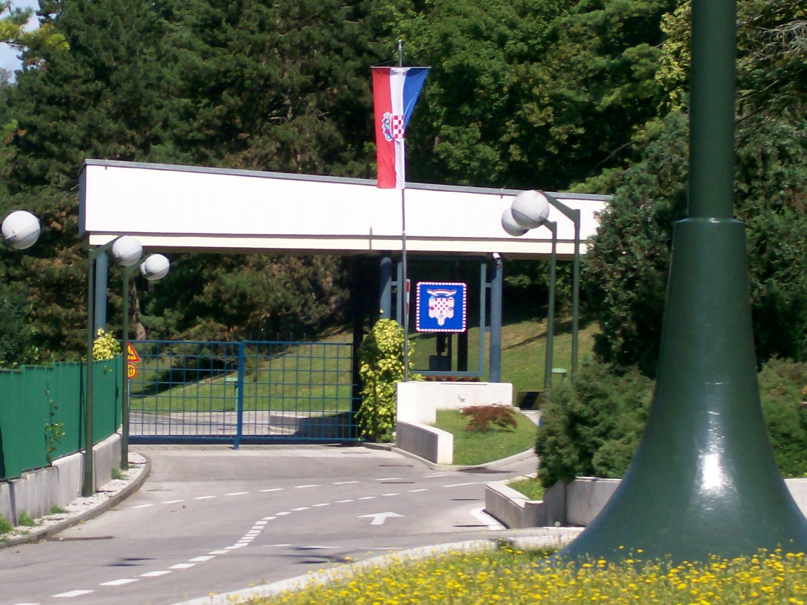 Presidential Palace in Zagreb, Croatia, main gate